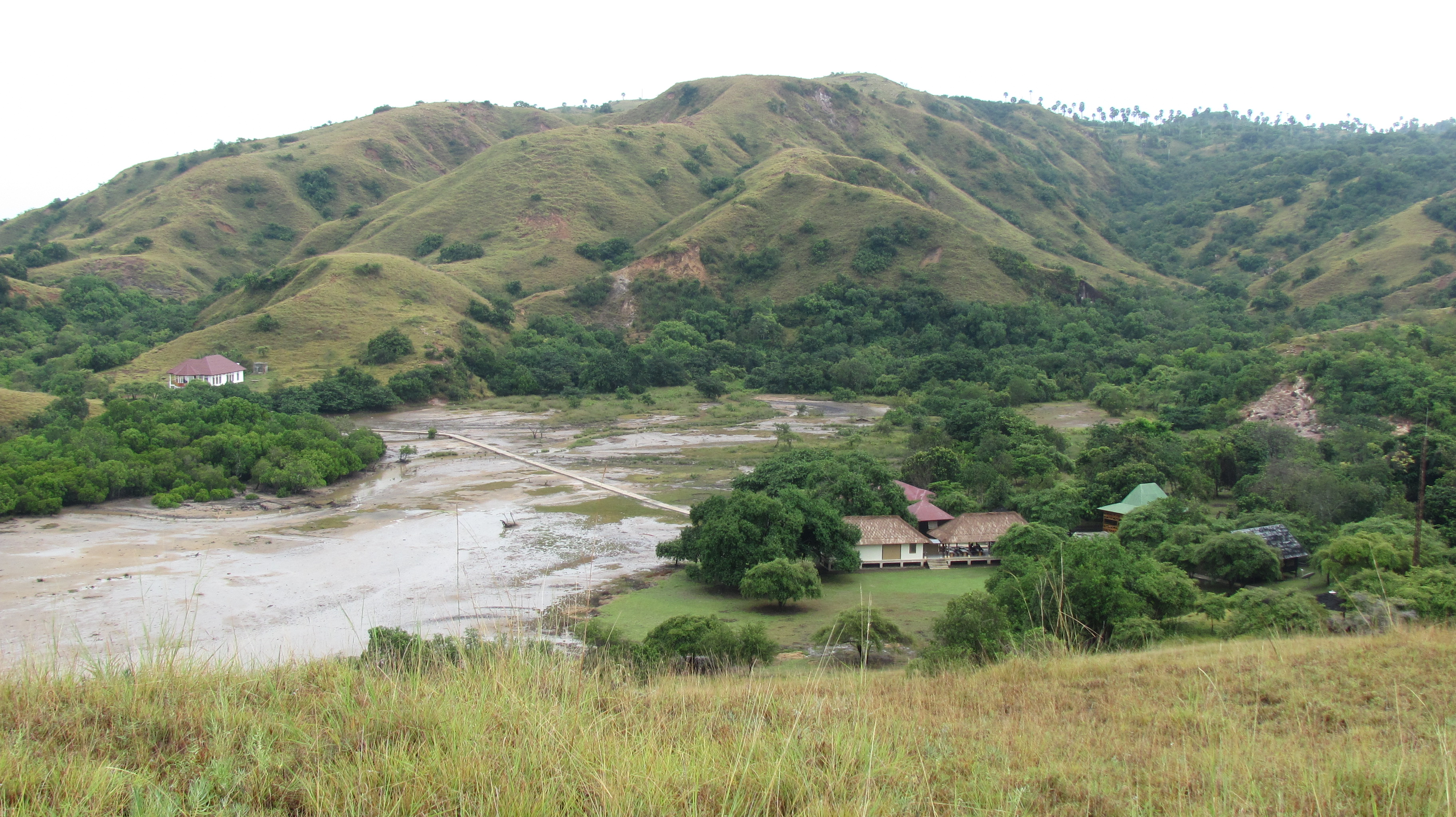 View to rangers' buildings, Rinca, Indonesia